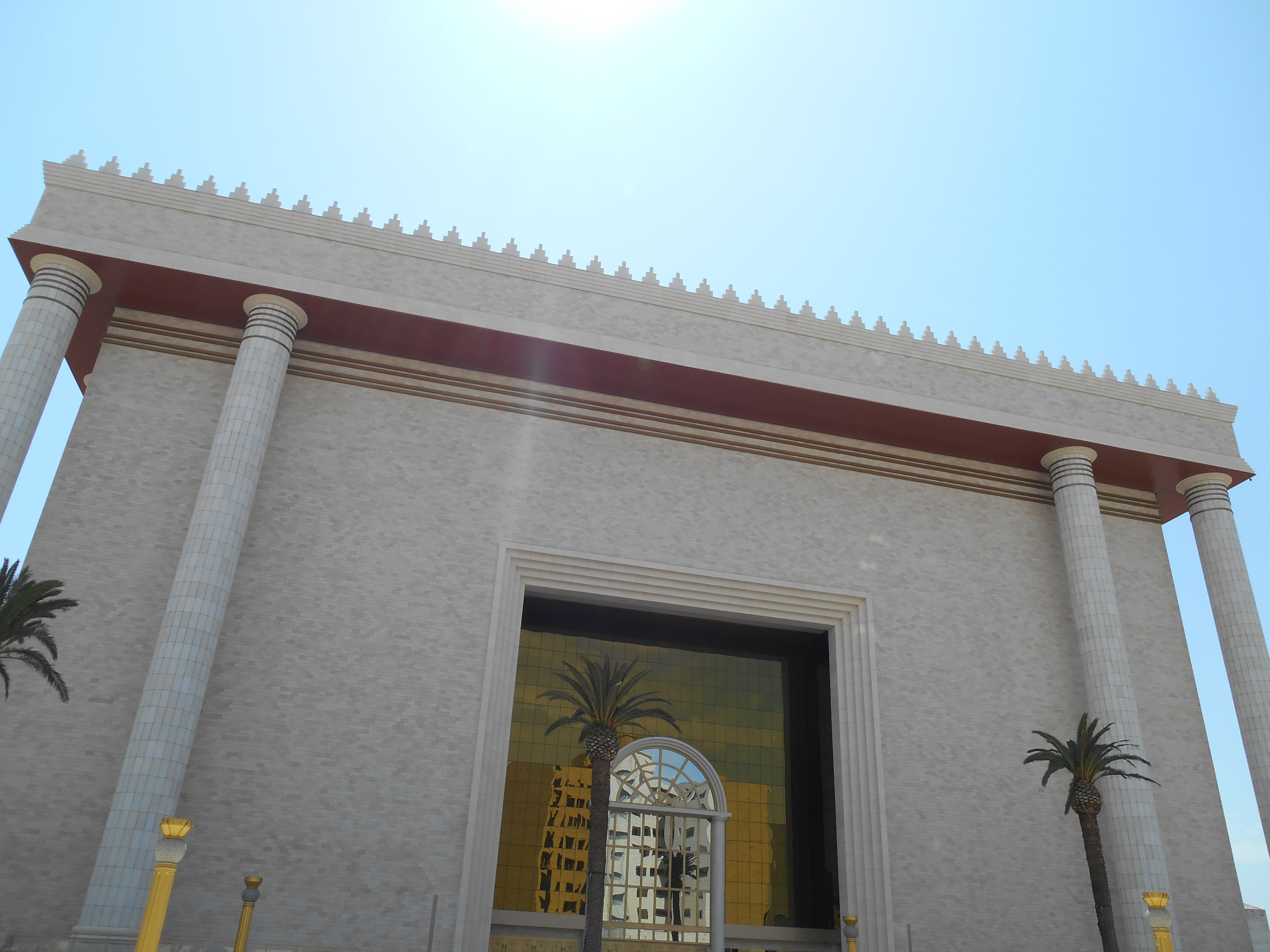 Salomon Temple in São Paulo, Brazil.